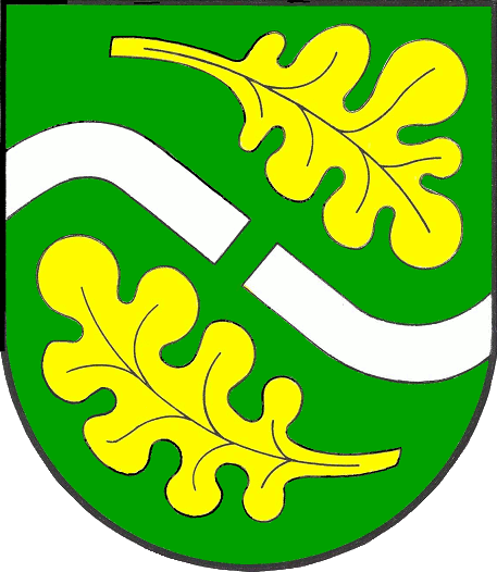 Coat of arms of the municipality Frestedt in Schleswig-Holstein, Germany.